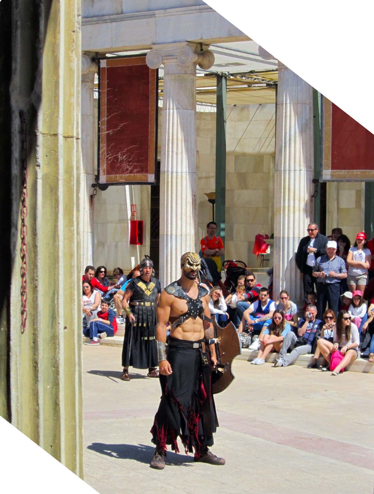 Street show at Terra Mitica Theme Park, Benidorm